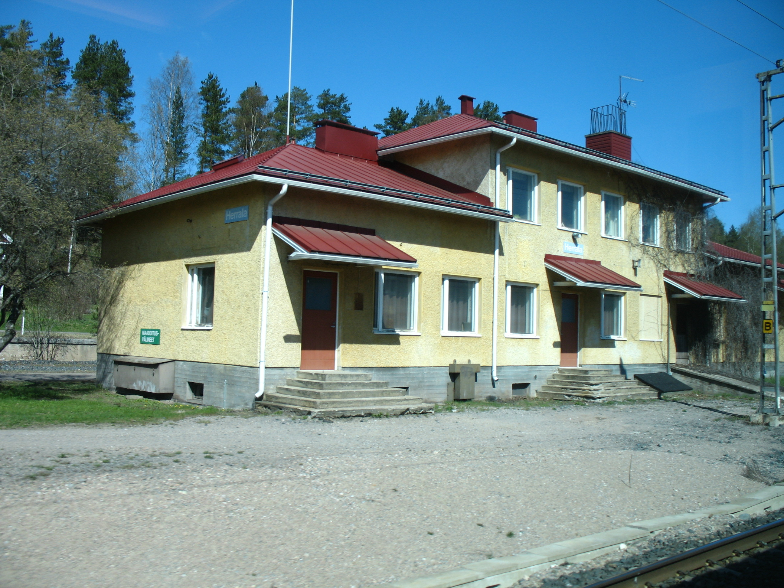 Herrala railway station in Hollola, Finland